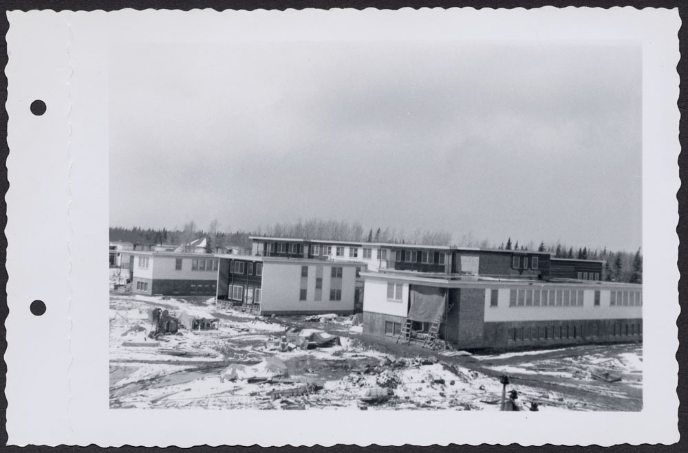 Bishop Horden Memorial School, front exterior of dormitory, from southeast, Moose Factory Island, Ontario, May 24, 1956